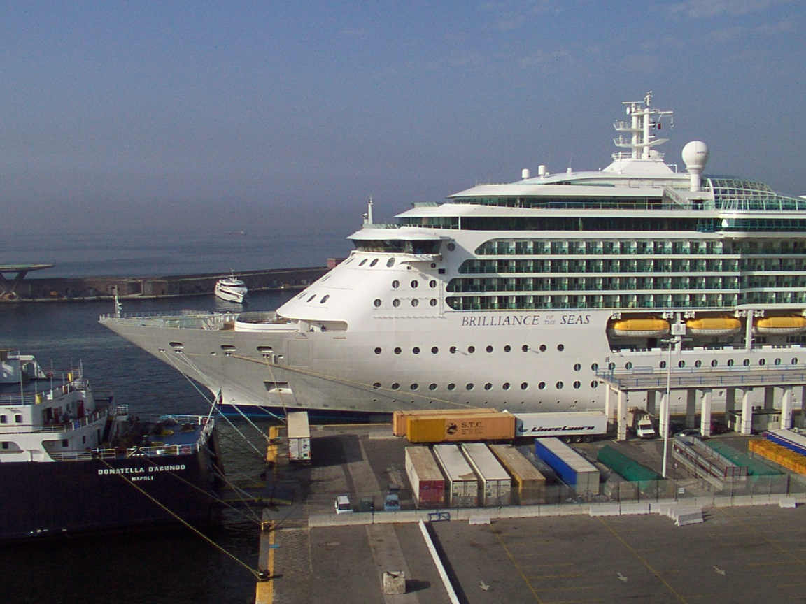 Brilliance of the Seas docked at Naples, Family vacation photo, June 2005.